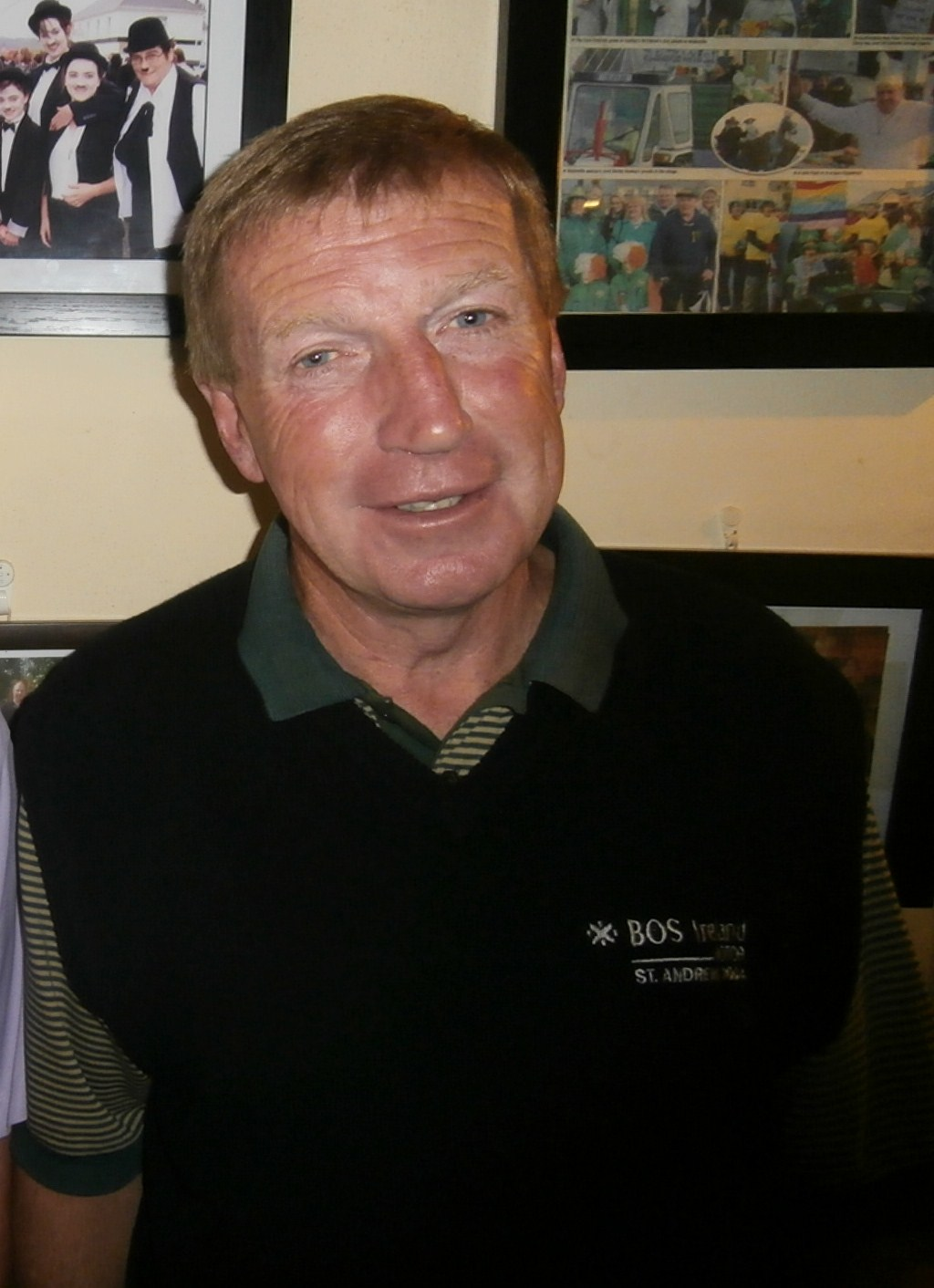 Dinny Allen, one of Cork's great sportsmen in 'The Crow's Nest.'